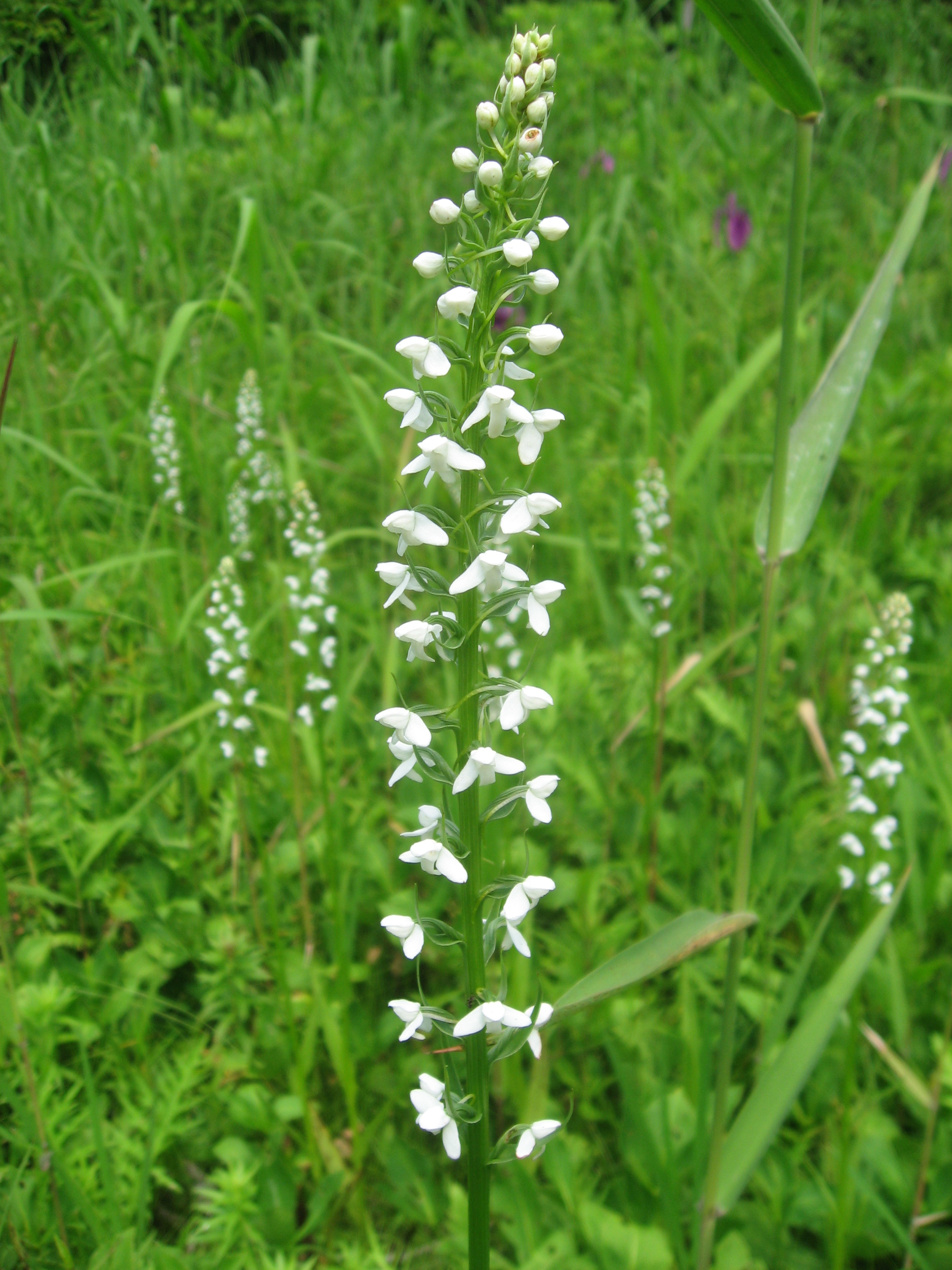 ミズチドリ_Platanthera_hologlottis.JPG